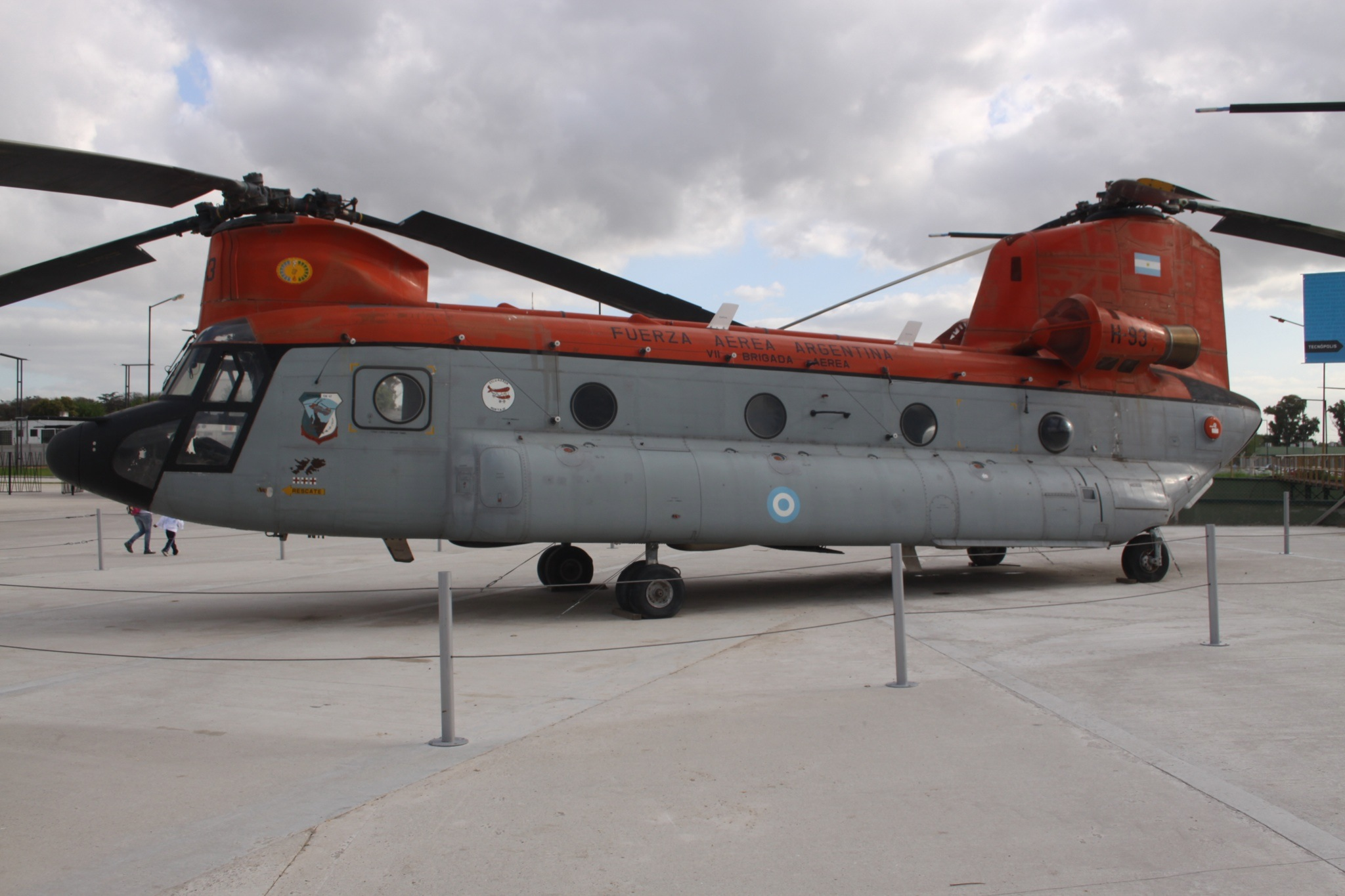 At Tecnopolis, Buenos Aires